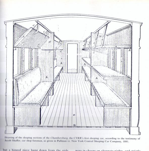 Original from an 1880's court case in New York (see text at bottom) Reproduced by State of Pennsylvania at